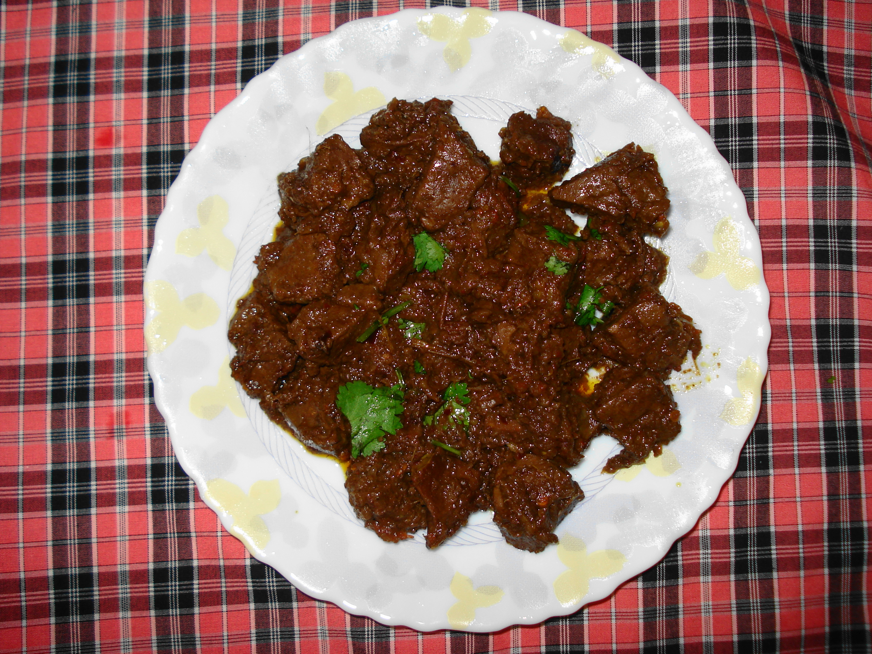 Kaleji Ka salan, Liver Curry